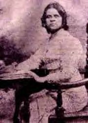 Image of Luisa Capetillo, who died in 1922 and therefore image which is pre Jan. 1 1923 copyright laws is PD